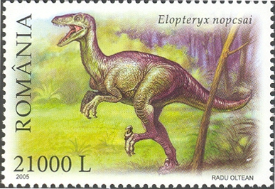 Stamps of Romania, 2005